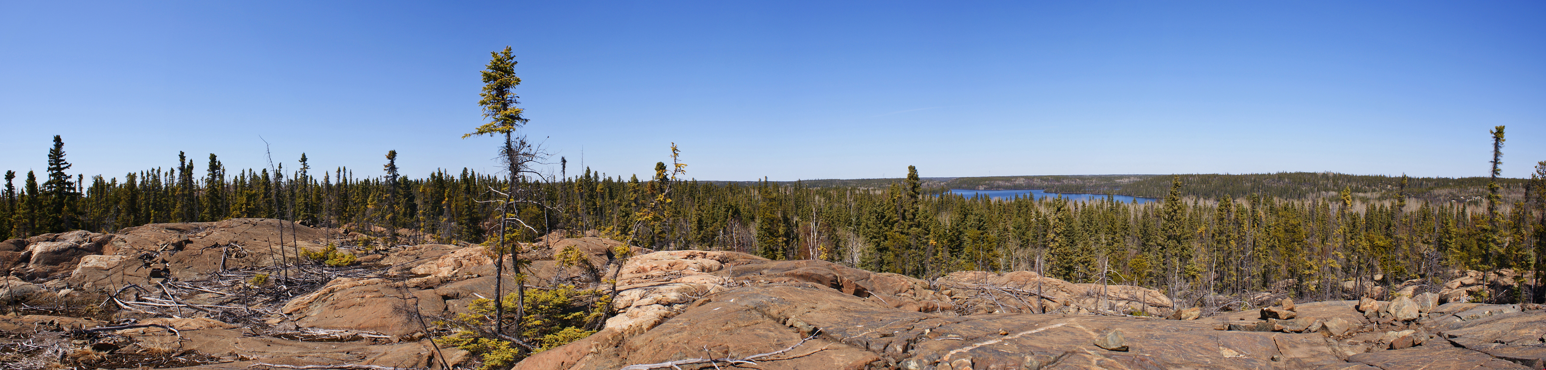 Wilderness and outcrop in the Flin Flon, Manitoba, Canada region. Lake seen is Big Island Lake.